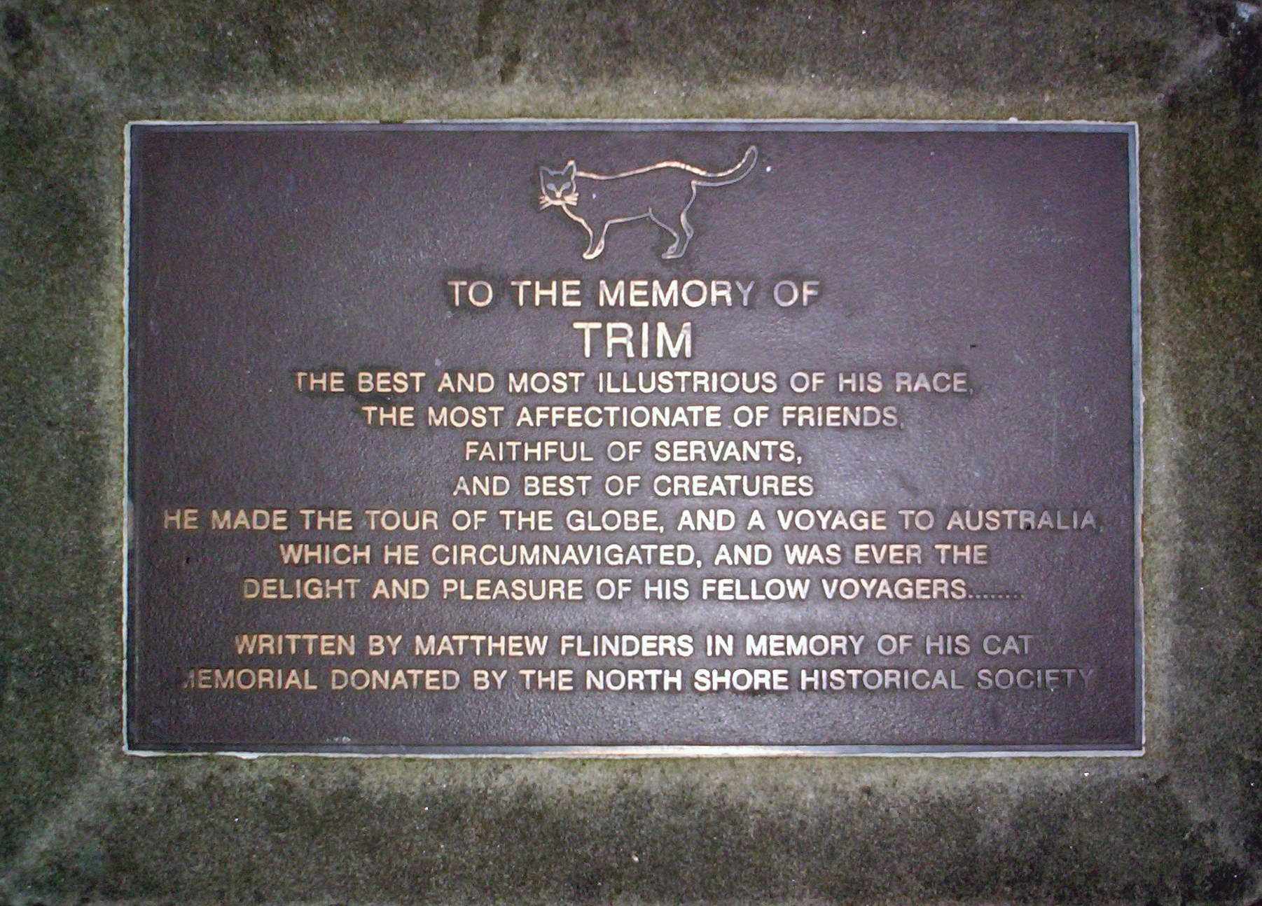 Plaque outside the State Library of New South Wales, dedicated to Matthew Flinders' cat Trim.